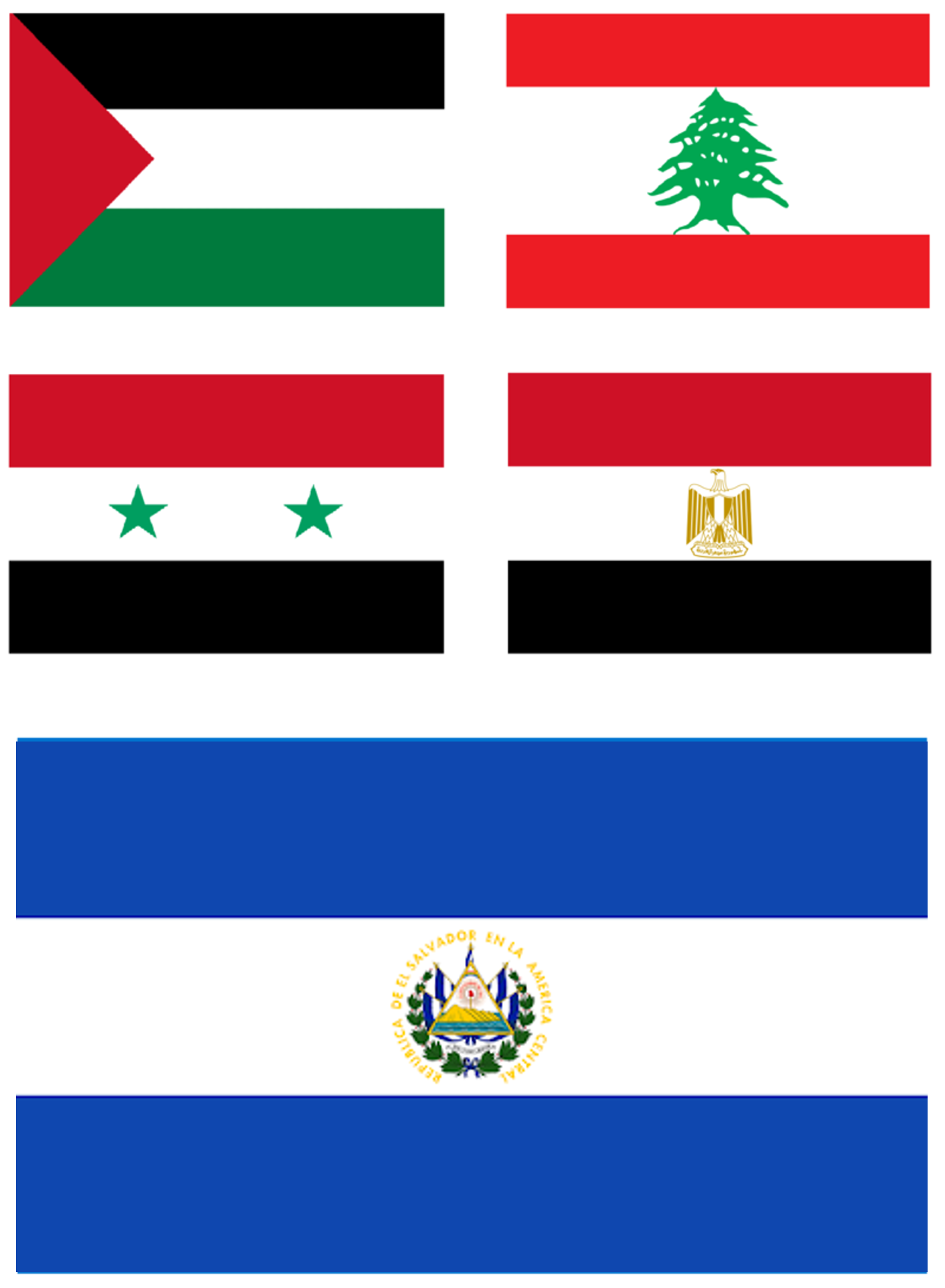 Arabs in El SALVADOR